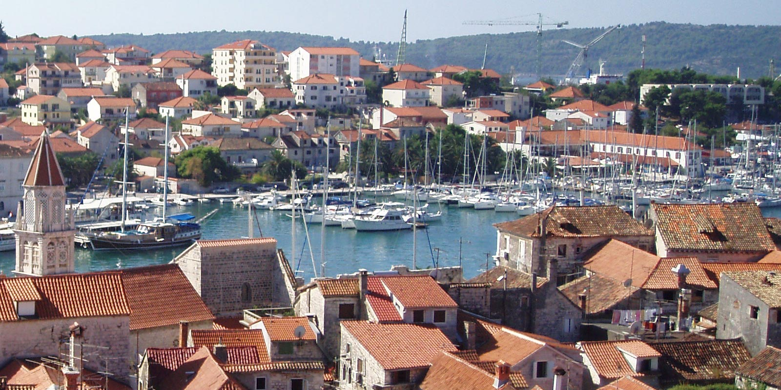 Marina in Trogir, Croatia